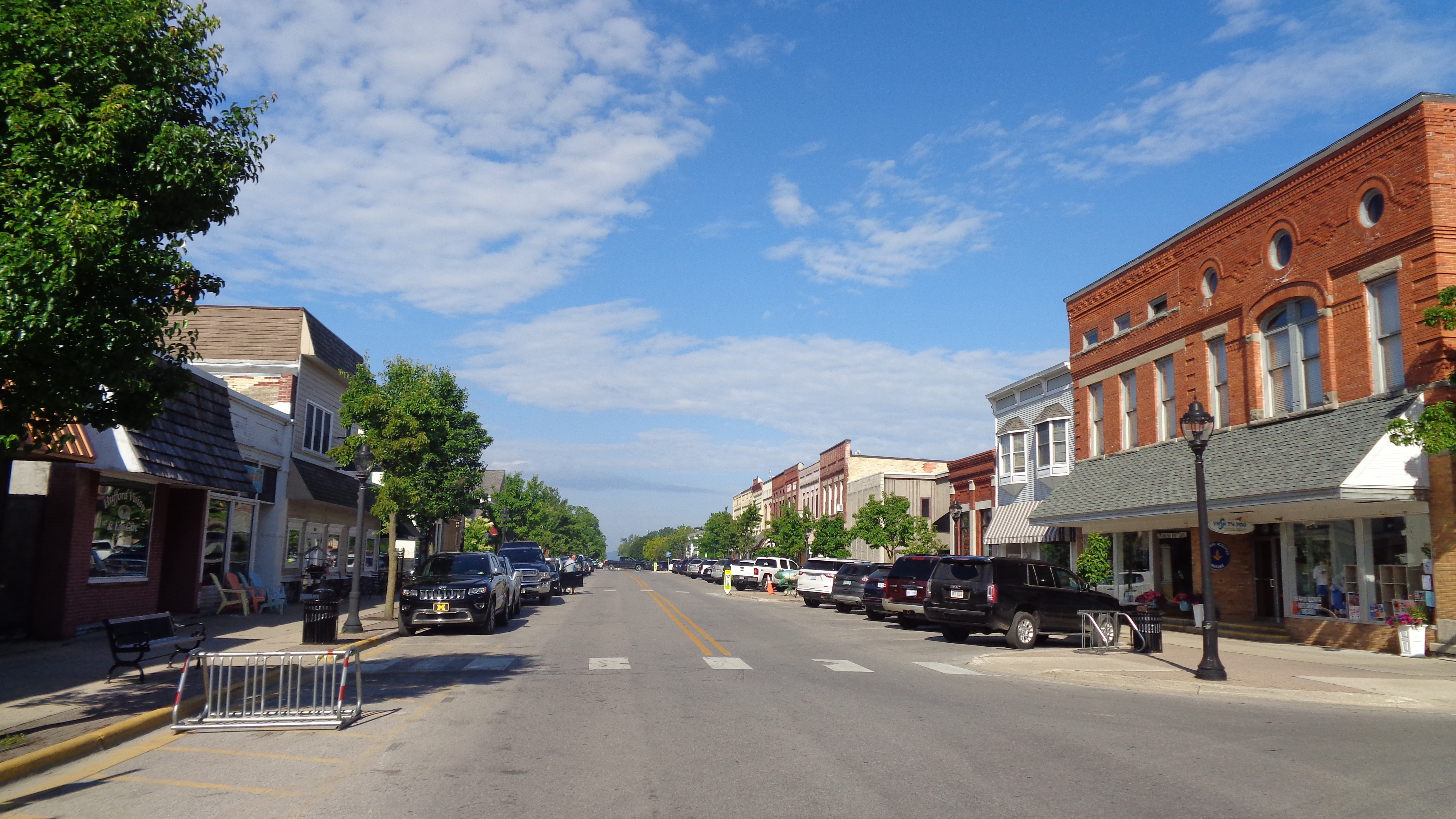 Depicted place: Elk Rapids